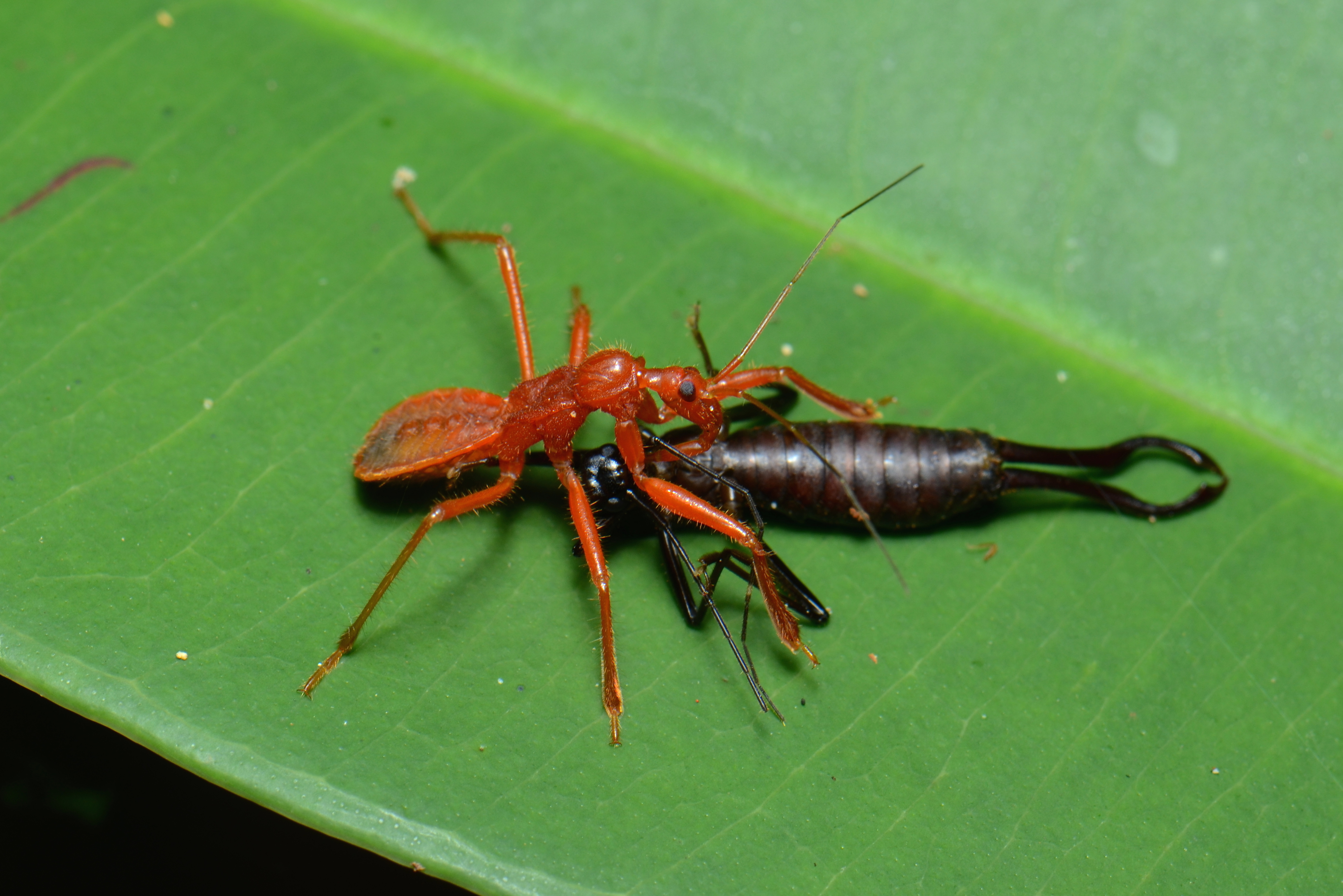 Assassin bug nymph with an earwig